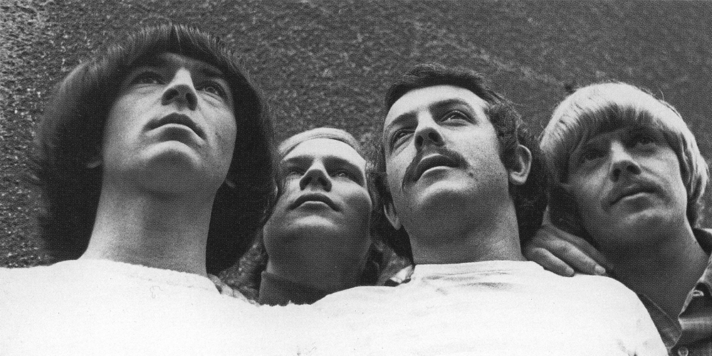 Progressive rock group Klan from Poland.